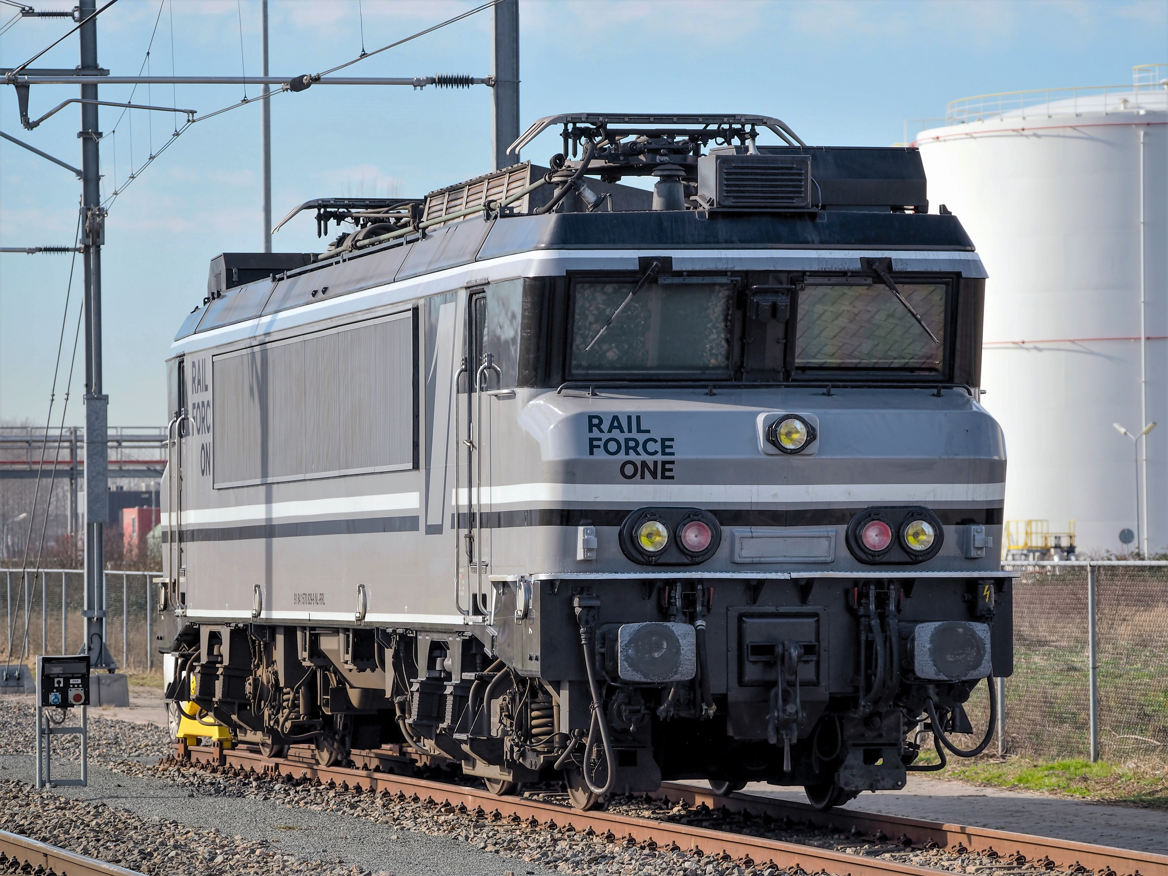 Photographed at Amsterdam.